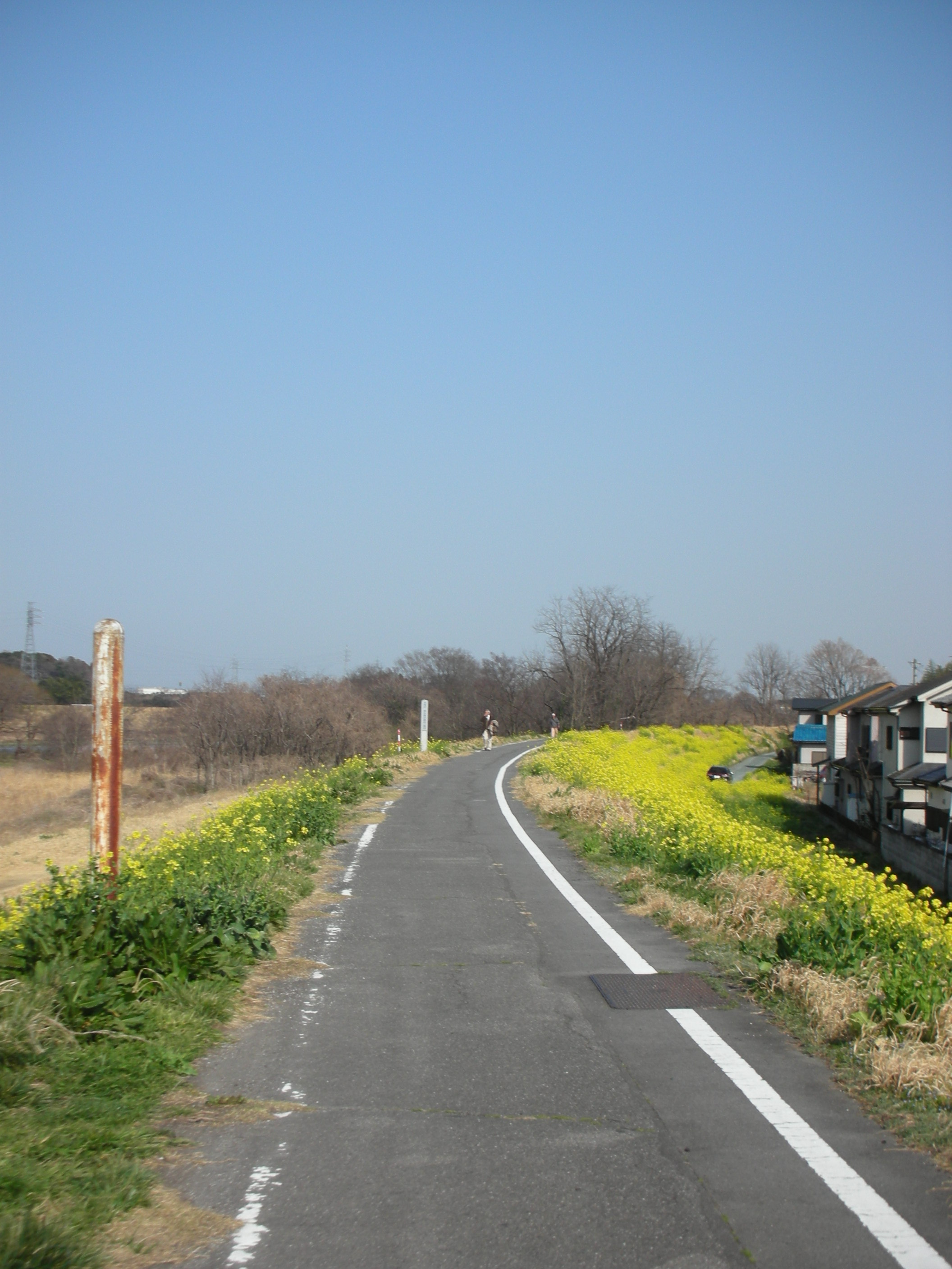 The Takasaki Isesaki Bicycle Road in Nakajima, Fujioka City